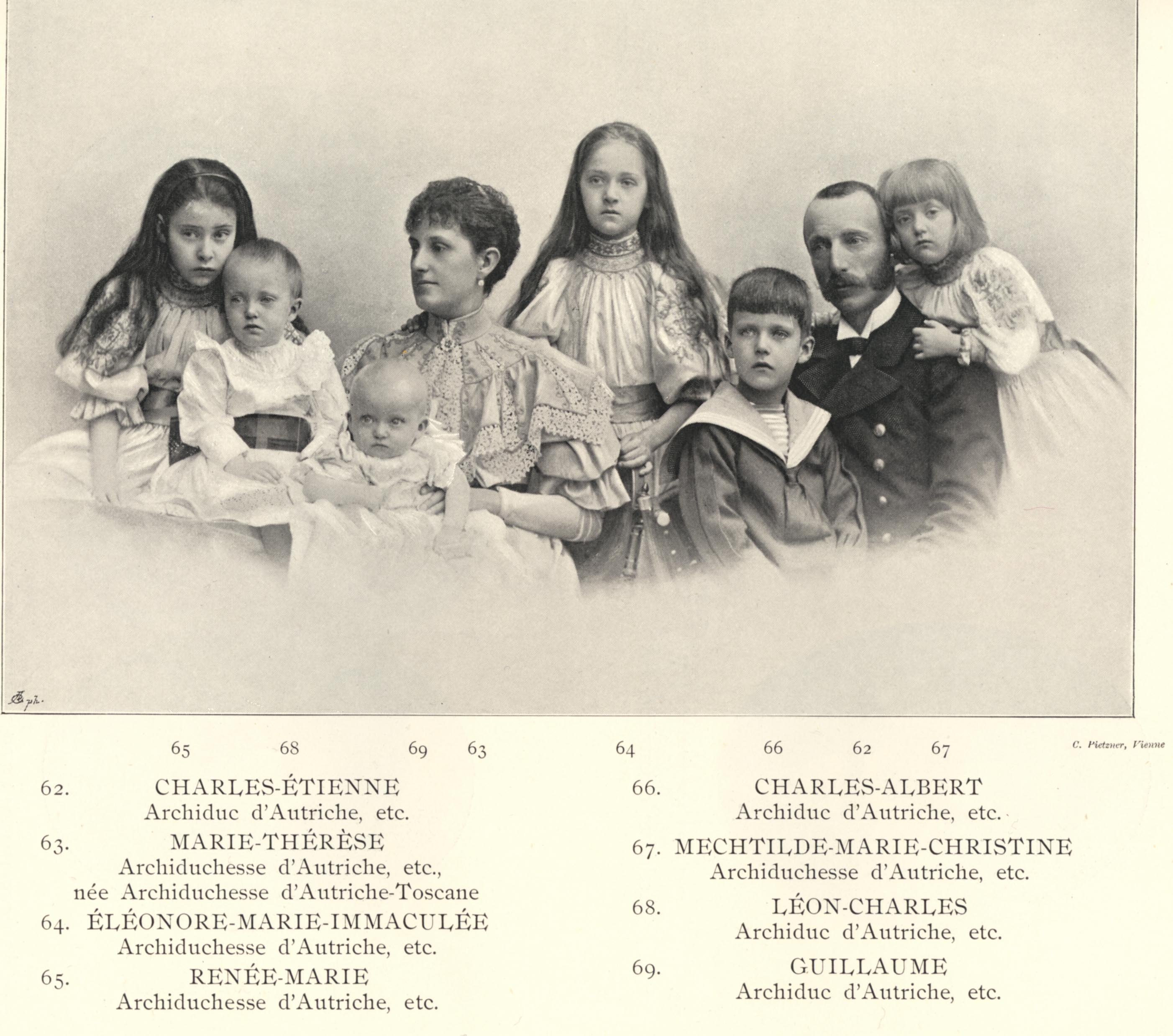 Archduke Karl Stephan of Austria-Teschen (1860-1933), his wife Archduchesse Maria Theresia Antoinette (1862-1933) of Austria-Toscana, with children family photo of 1896.